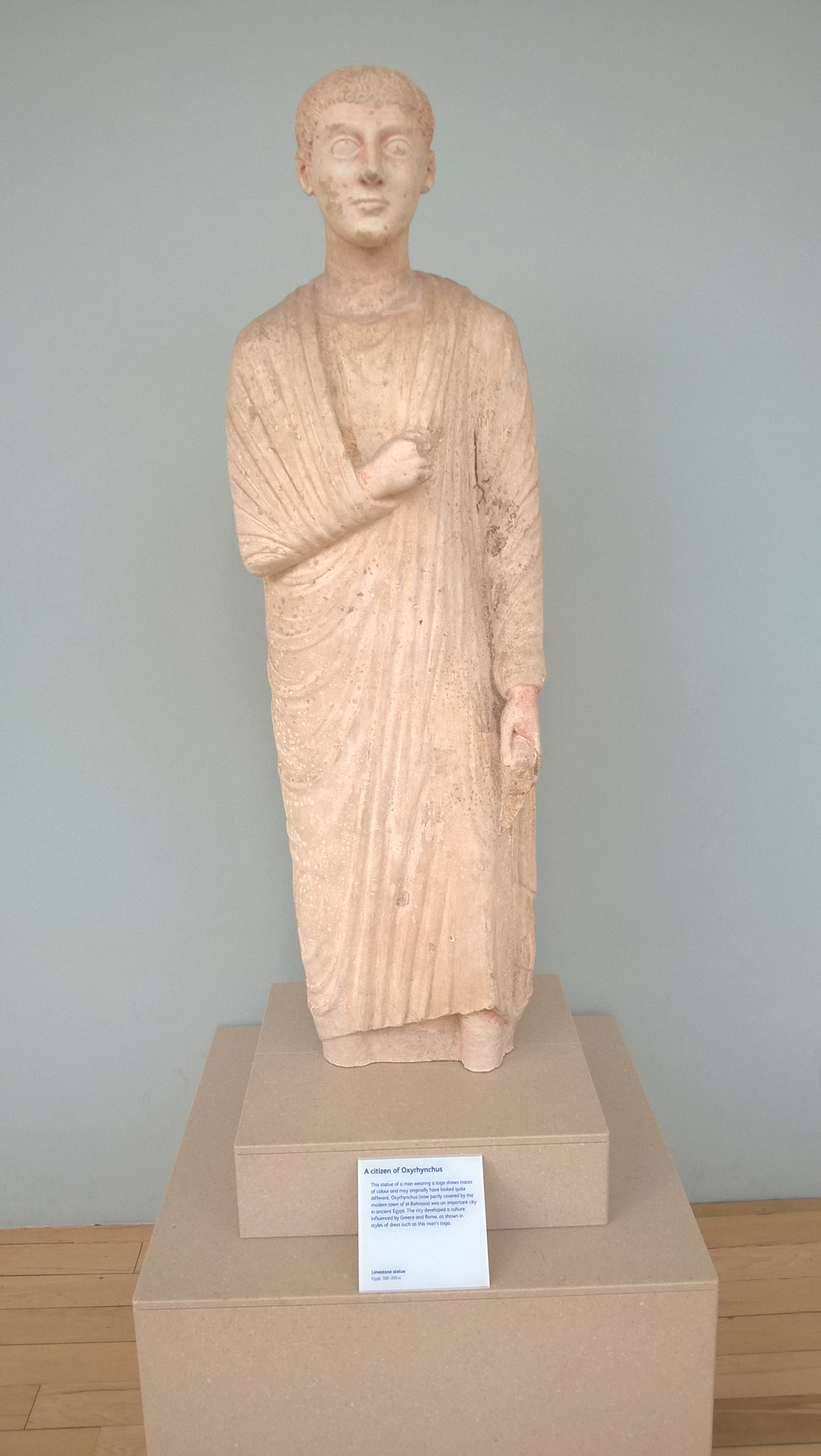 A citizen of Oxyrhynchus. Limestone statue from Egypt circa 300 to 200 BC, on display in the National Museum of Scotland.